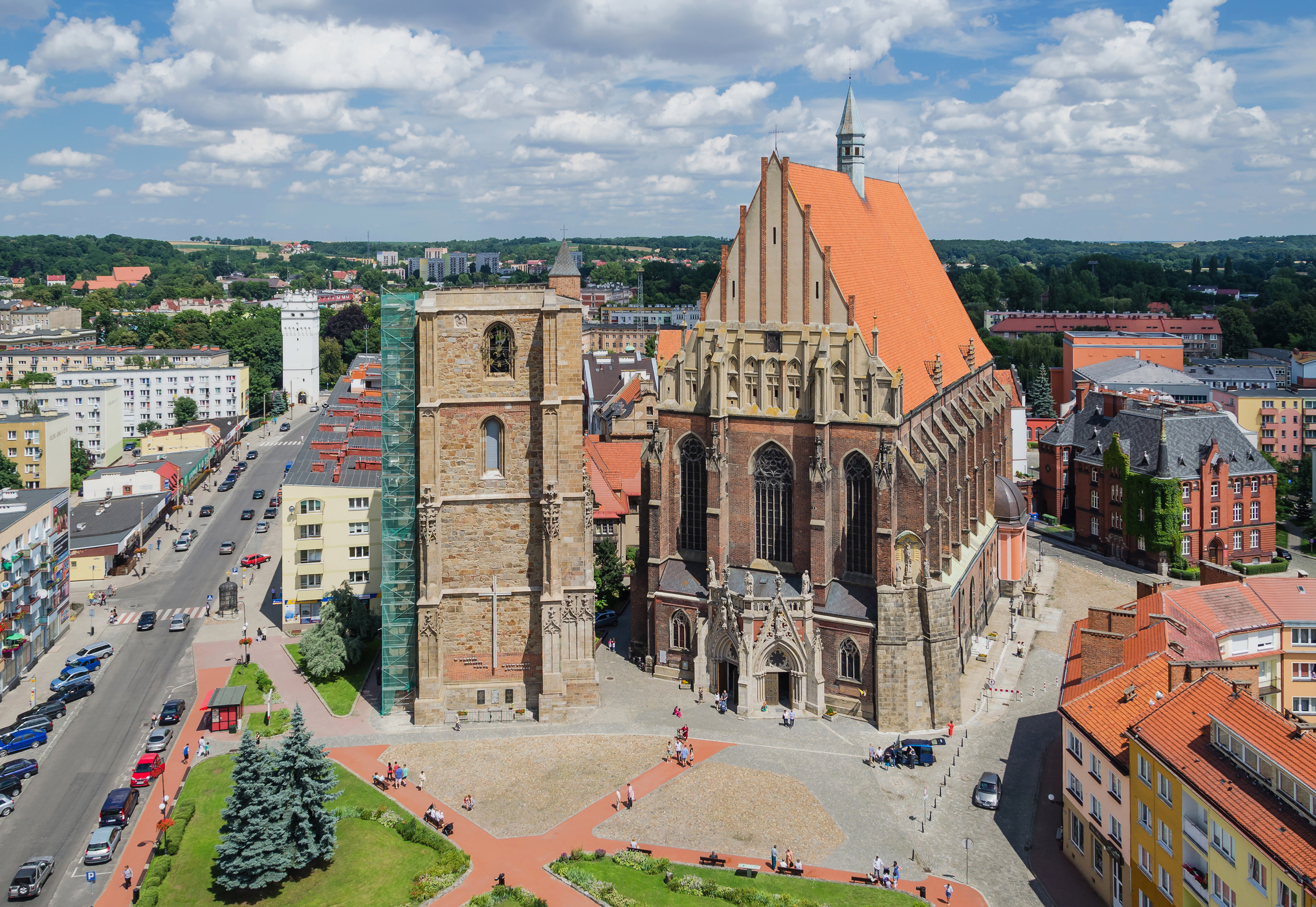 Saints James and Agnes Basilica in Nysa